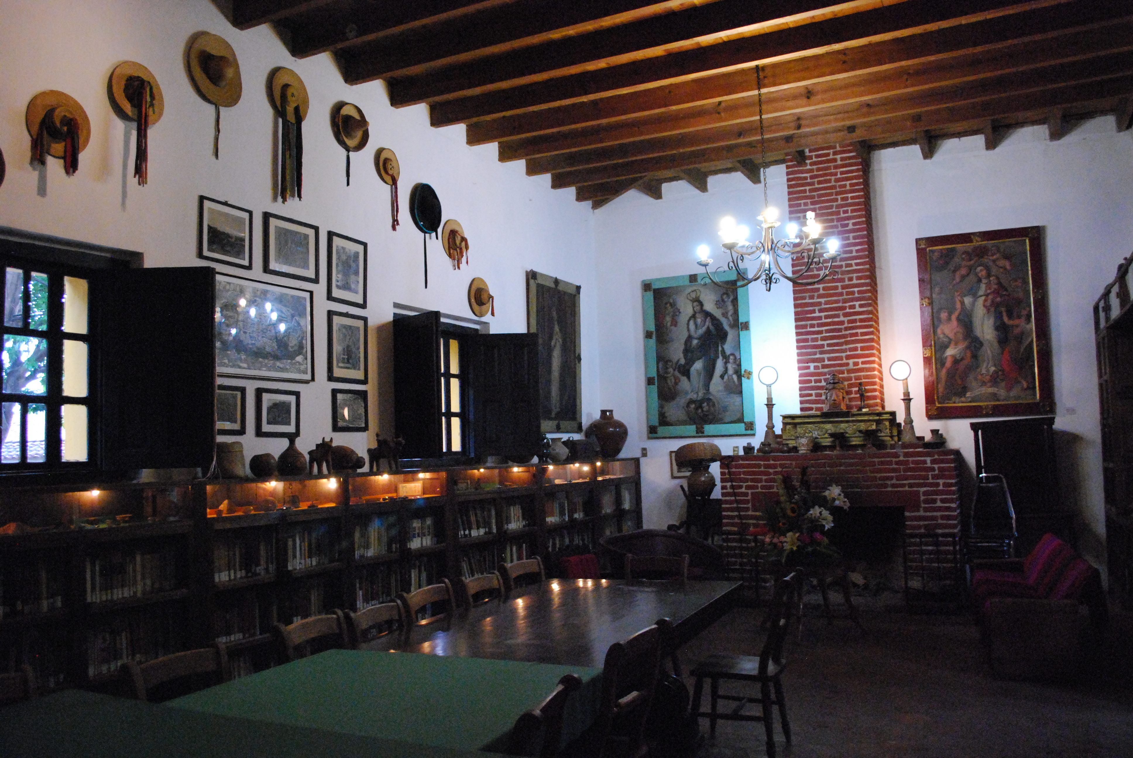 Library of the Casa Na Bolom in San Cristobal de las Casas, Chiapas, Mexico